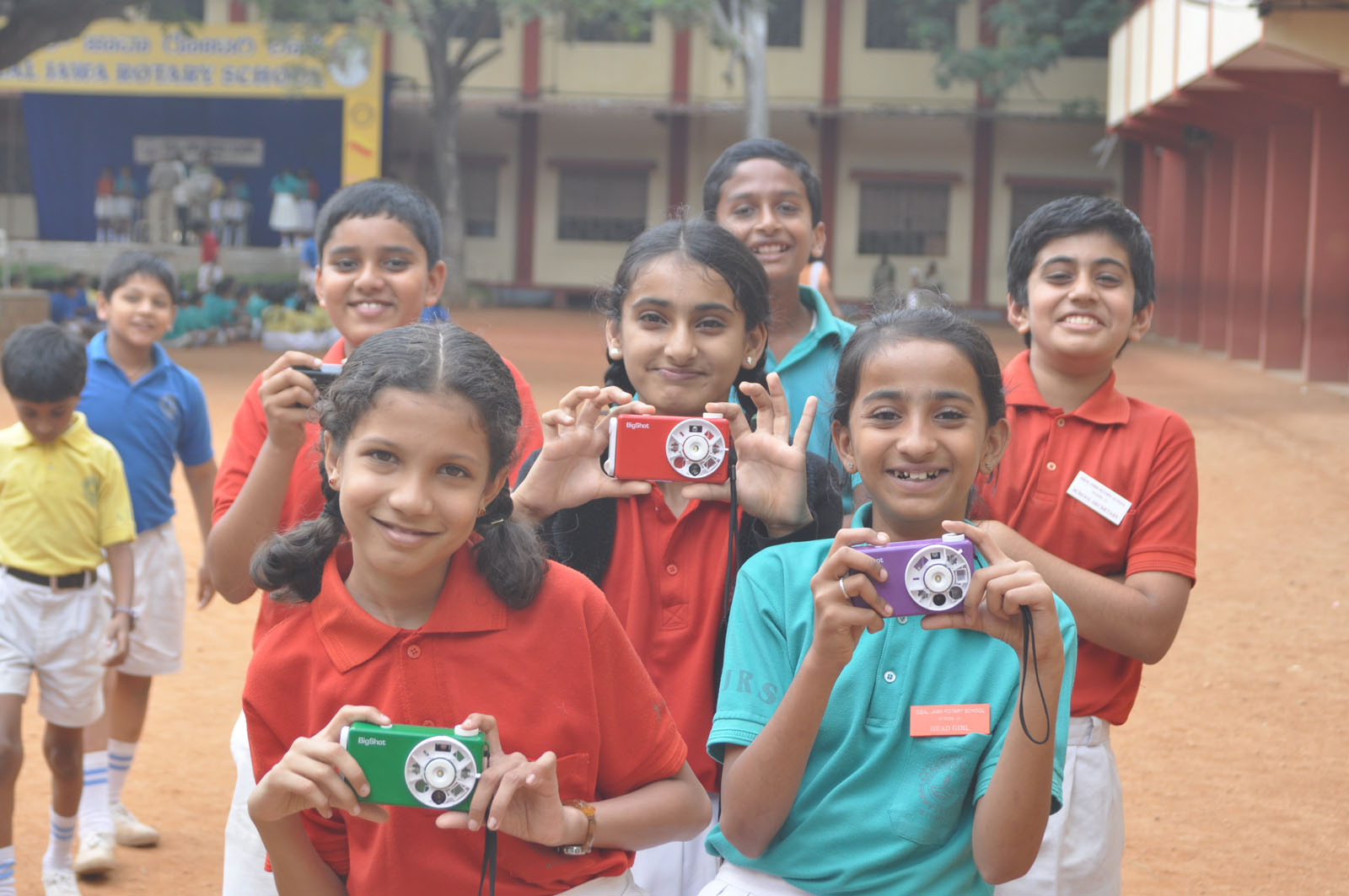 Students in Bengaluru, India pose with their Bigshot cameras during one of the global Bigshot field tests.